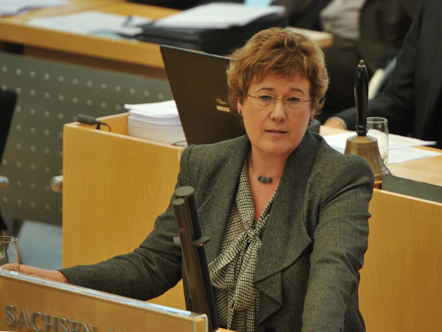 Wikipedia im Landtag – Sachsen-Anhalt 13./14. Dezember 2012 in MagdeburgDieses Foto wurde im Rahmen des Projektes „Wikipedia im Landtag“ erstellt. The making of this document was supported by the Community-Budget of Wikimedia Germany. The making of this work was supported by Wikimedia Austria. For other files made with the support of Wikimedia Austria, please see the category Supported by Wikimedia Österreich. Personality rights warningAlthough this work is freely licensed or in the public domain, the person(s) shown may have rights that legally restrict certain re-uses unless those depicted consent to such uses. In these cases, a model release or other evidence of consent could protect you from infringement claims.